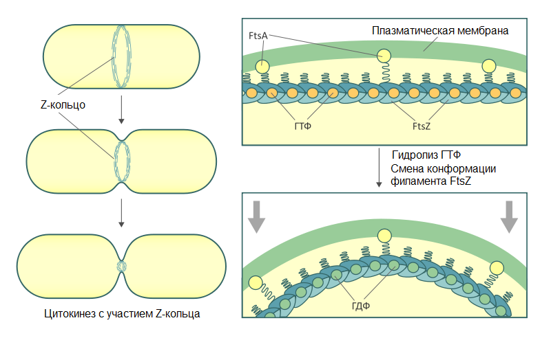 Cytokinesis in bacterial cell